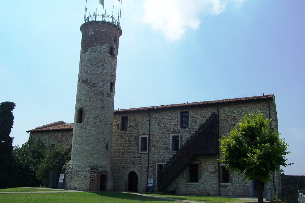 Castle of Brescia